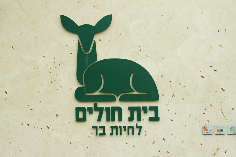 Logo, by Eliezer Weishoff, Israel wildlife hospital located at the Zoological Centre Tel-Aviv, Ramat-Gan (Safari)